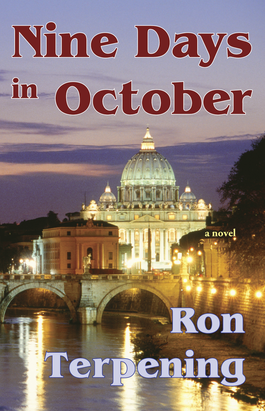 Nine Days in October front cover